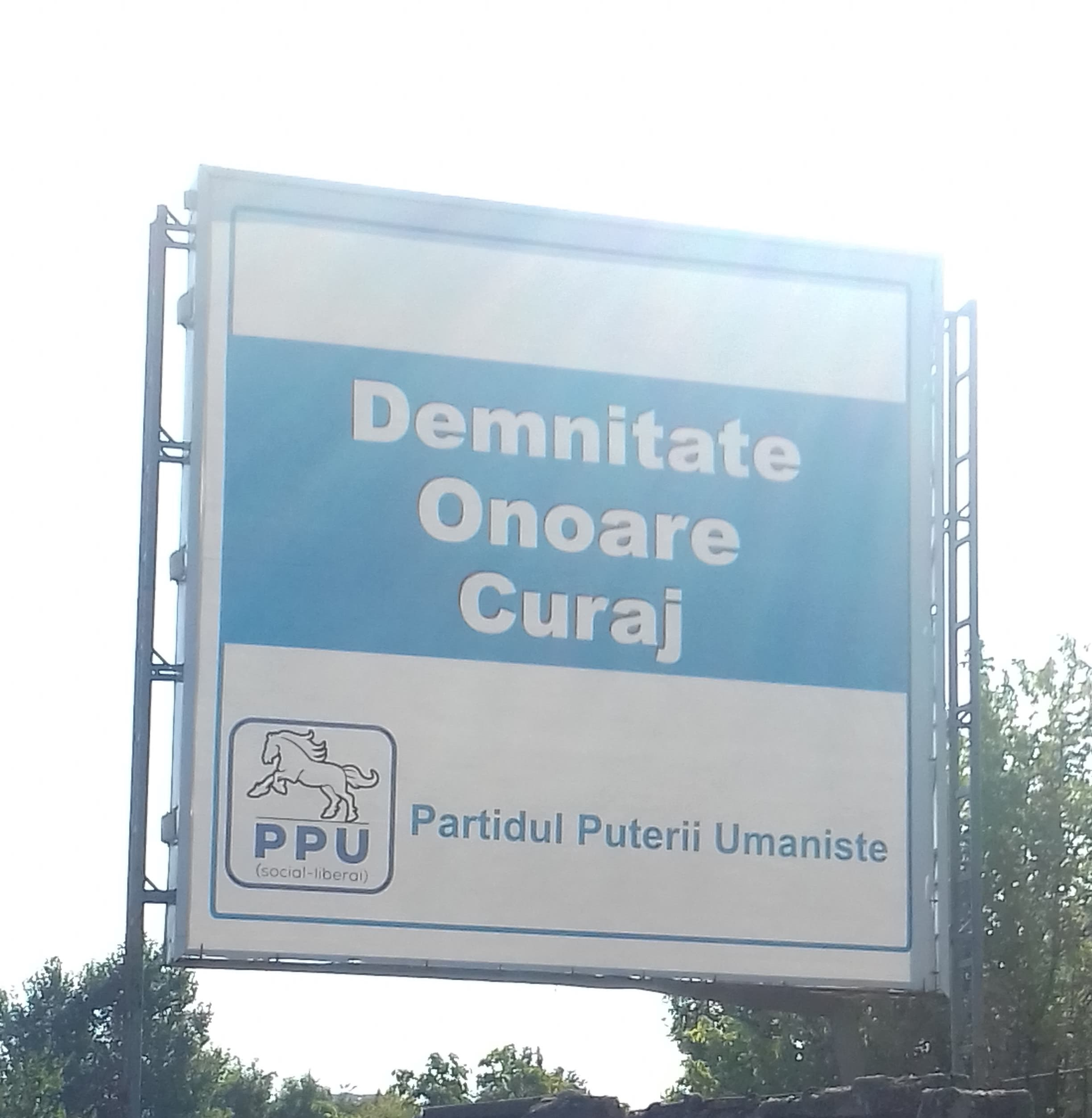 Humanist Power Party billboard in Bucharest, August 26th 2018